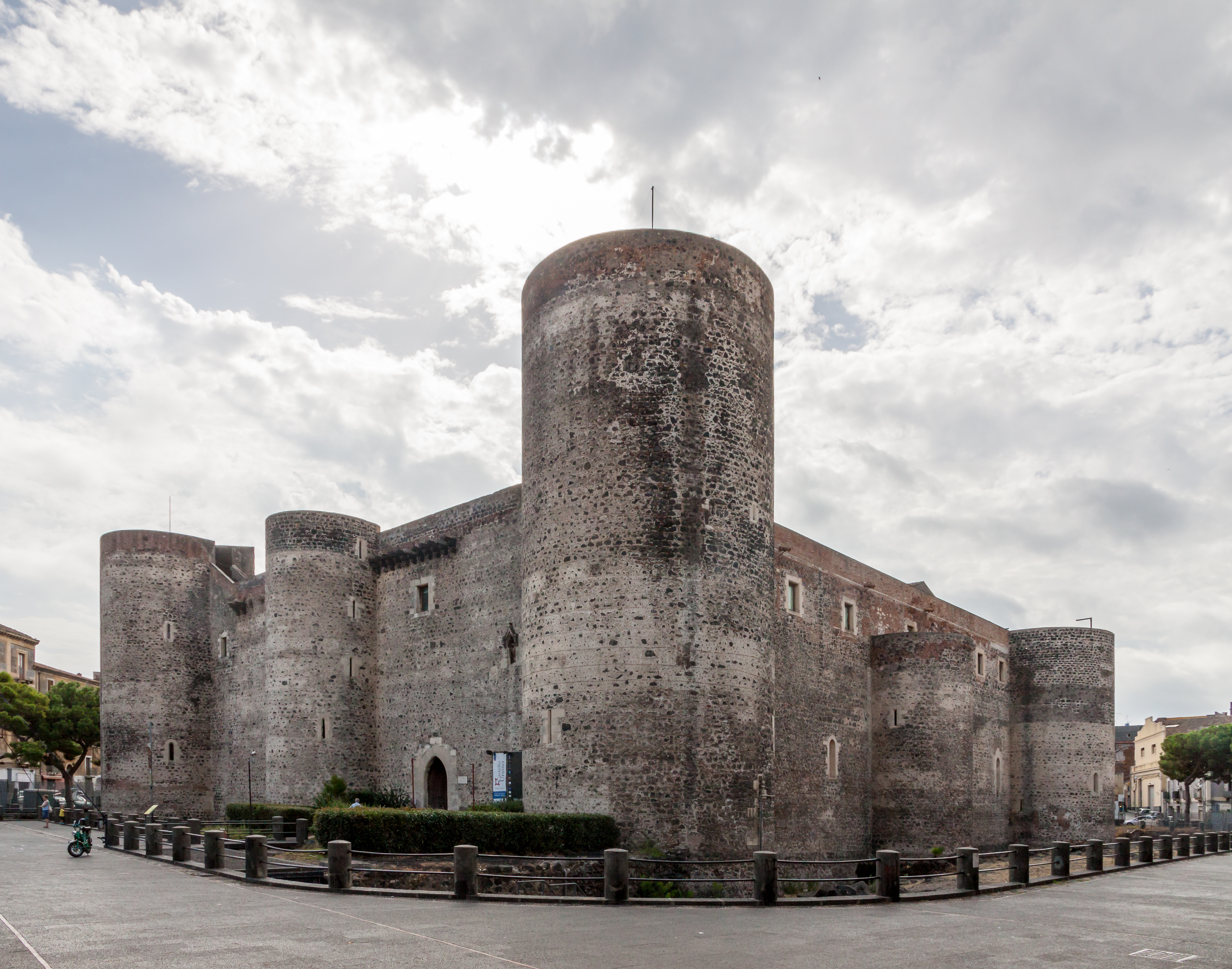 Castello Ursino (Catania)